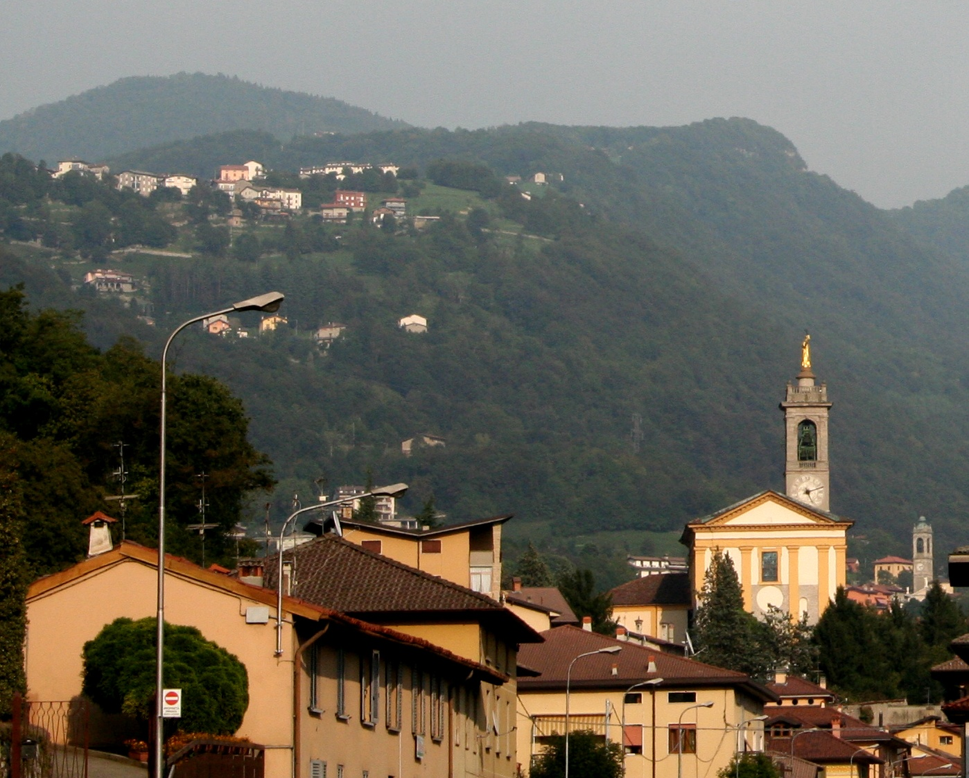 Zogno (BG) - Crop of Zogno.jpg